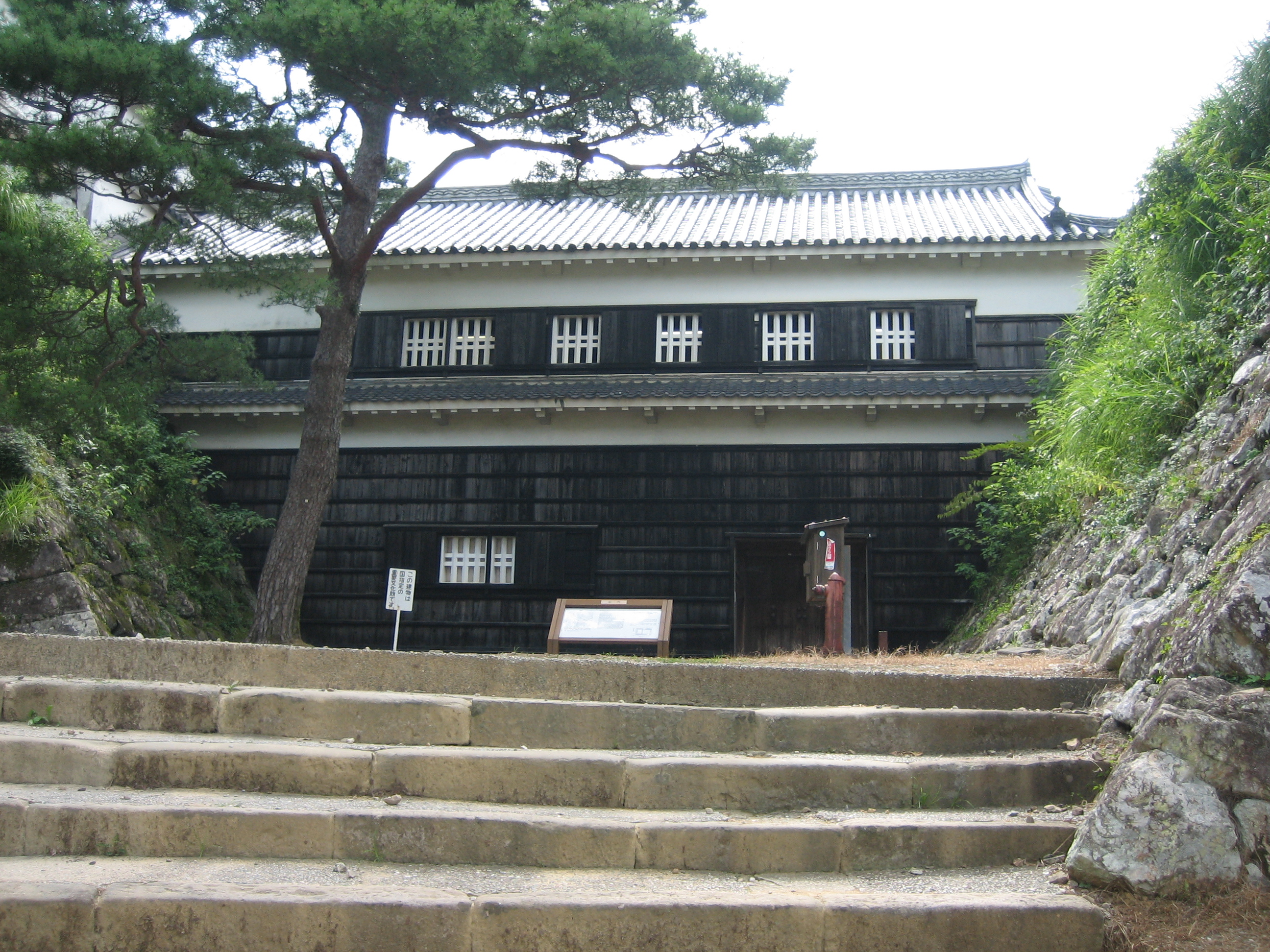 Tsume-mon, one of the gates at Kōchi Castle(Japan's national important cultural property). Kōchi City, Kōchi, Japan